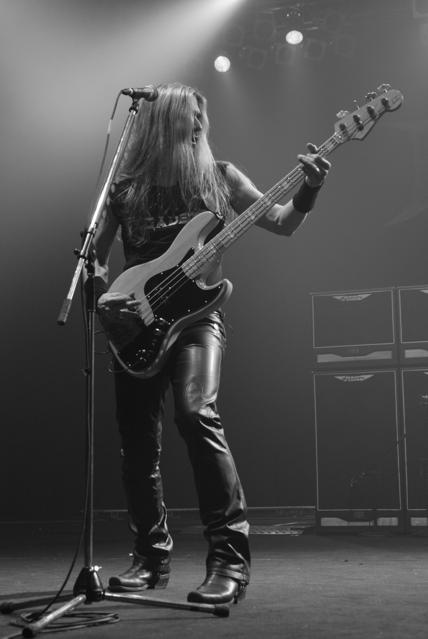 James LoMenzo from Megadeth during Metalmania 2008 festival